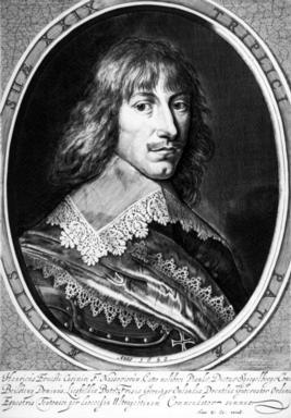 Portrait of Henry Casimir I, Count of Nassau-Dietz.